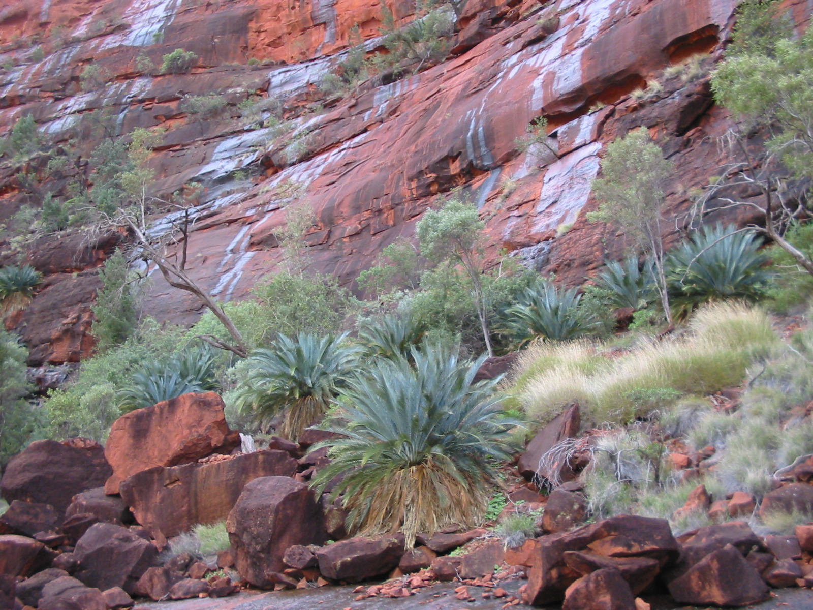 MacDonnell Ranges Cycad (Macrozamia macdonnellii) in Cycad Gorge, Finke Gorge National Park, Northern Territory, Australia